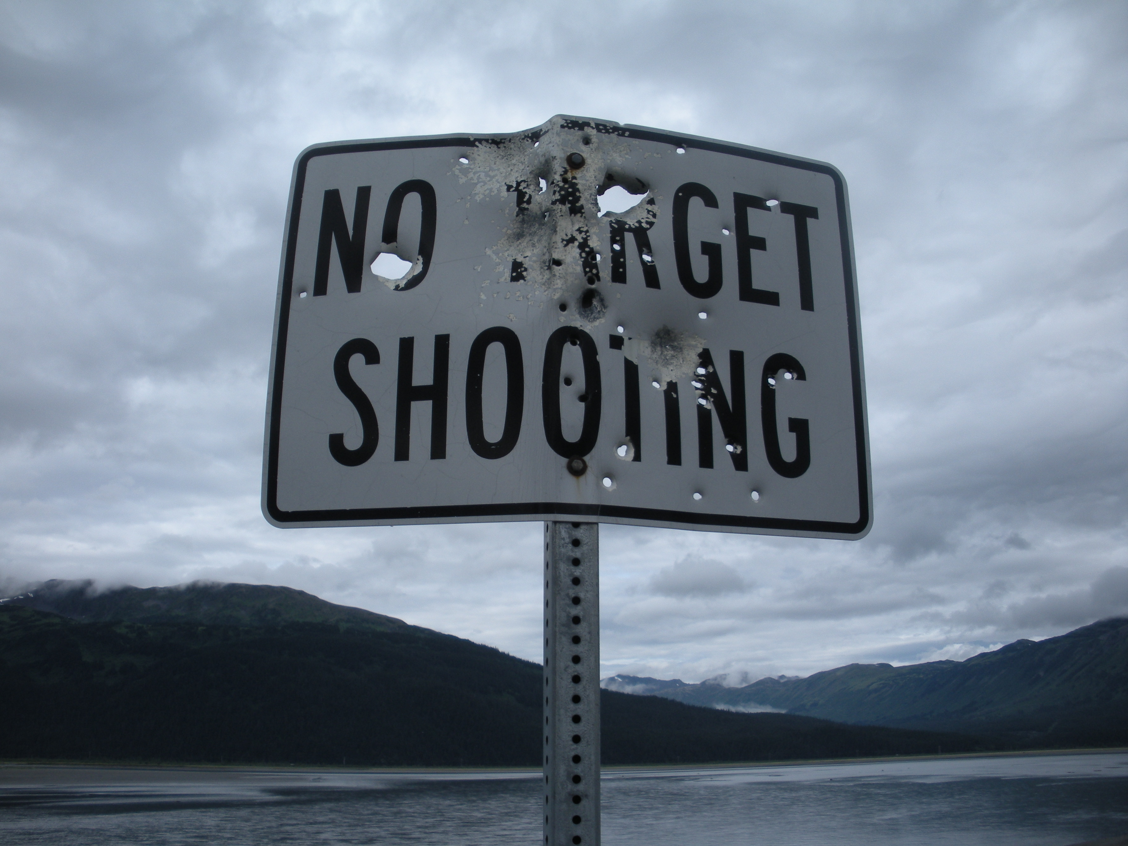 No target shooting - Sign is located at mile 80.5 of the Seward Highway at 20 mile creek.